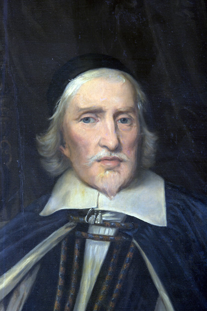 Brian Duppa (1558-1662), Dean of Christ Church, Oxford